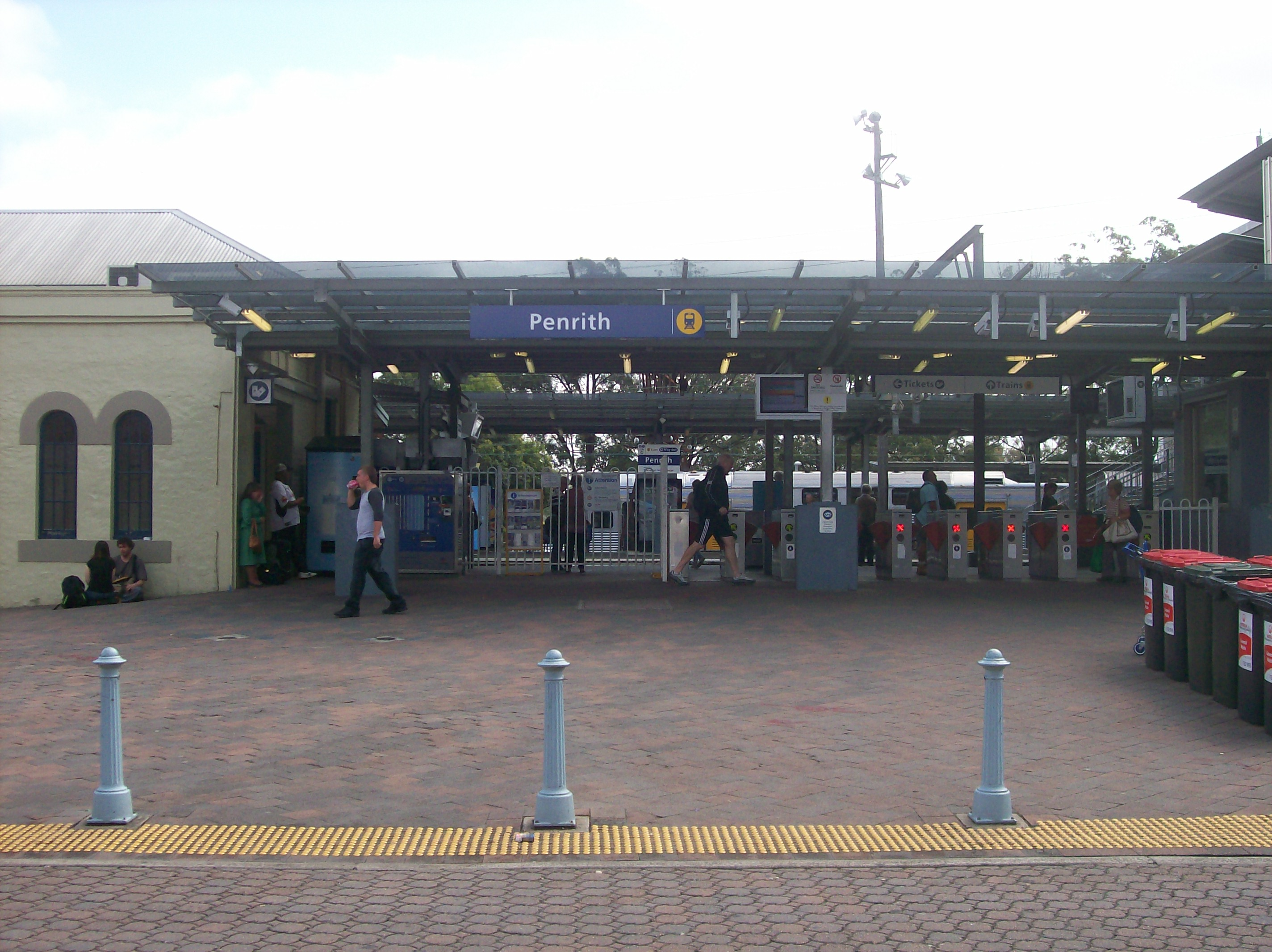 Penrith railway station entrance